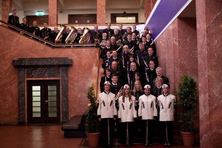 Gruppenphoto im Kurhaus Hall in Tirol